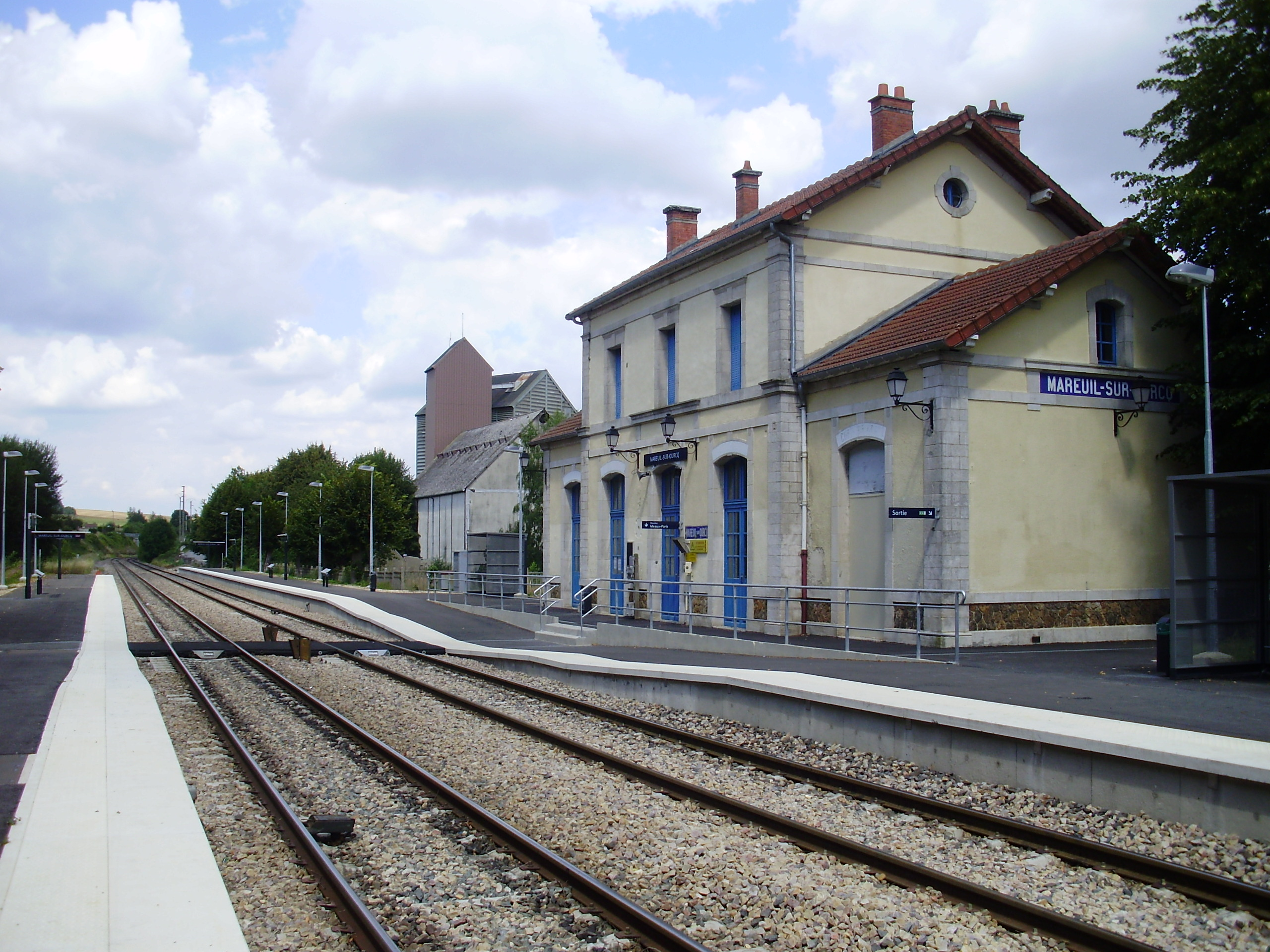 Mareuil-sur-Ourcq station, Oise, France (view by looking to La Ferté-Milon)